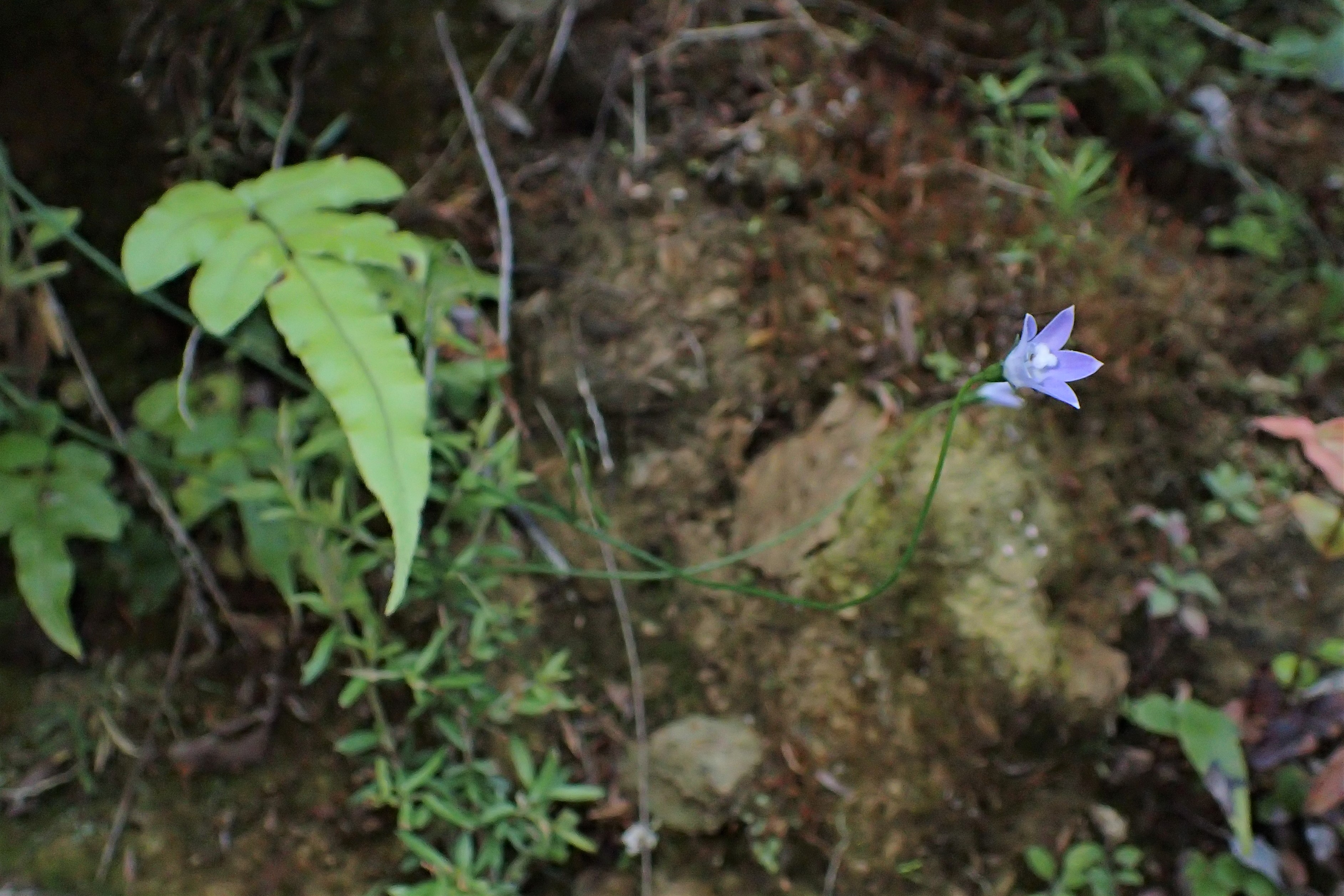 Wahlenbergia violacea in Cullen Point Lookout by Havelock, Marlborough (New Zealand)